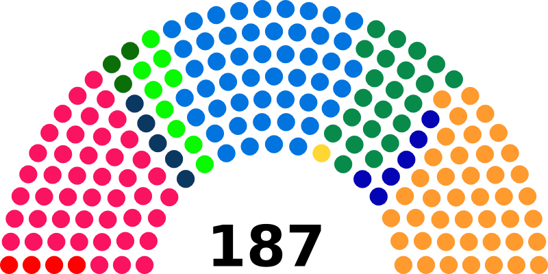 Seats diagramme of Swiss National Council (1939)